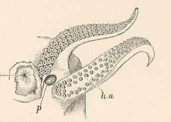 Hetocotylised arm (h,a) of Sepia officinalis L., shown in contrast to one of the ordinary sessile arms Subject: Sepia Tag: Mollusks